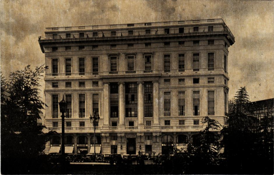 The Hotel Continental at Avenida Roque Sáenz Peña 725, Buenos Aires, Argentina, at the time of its inauguration, from a 1930s postcard. Built in 1927 by Alejandro Bustillo, it is now known as the 725 Continental Hotel: see [1].